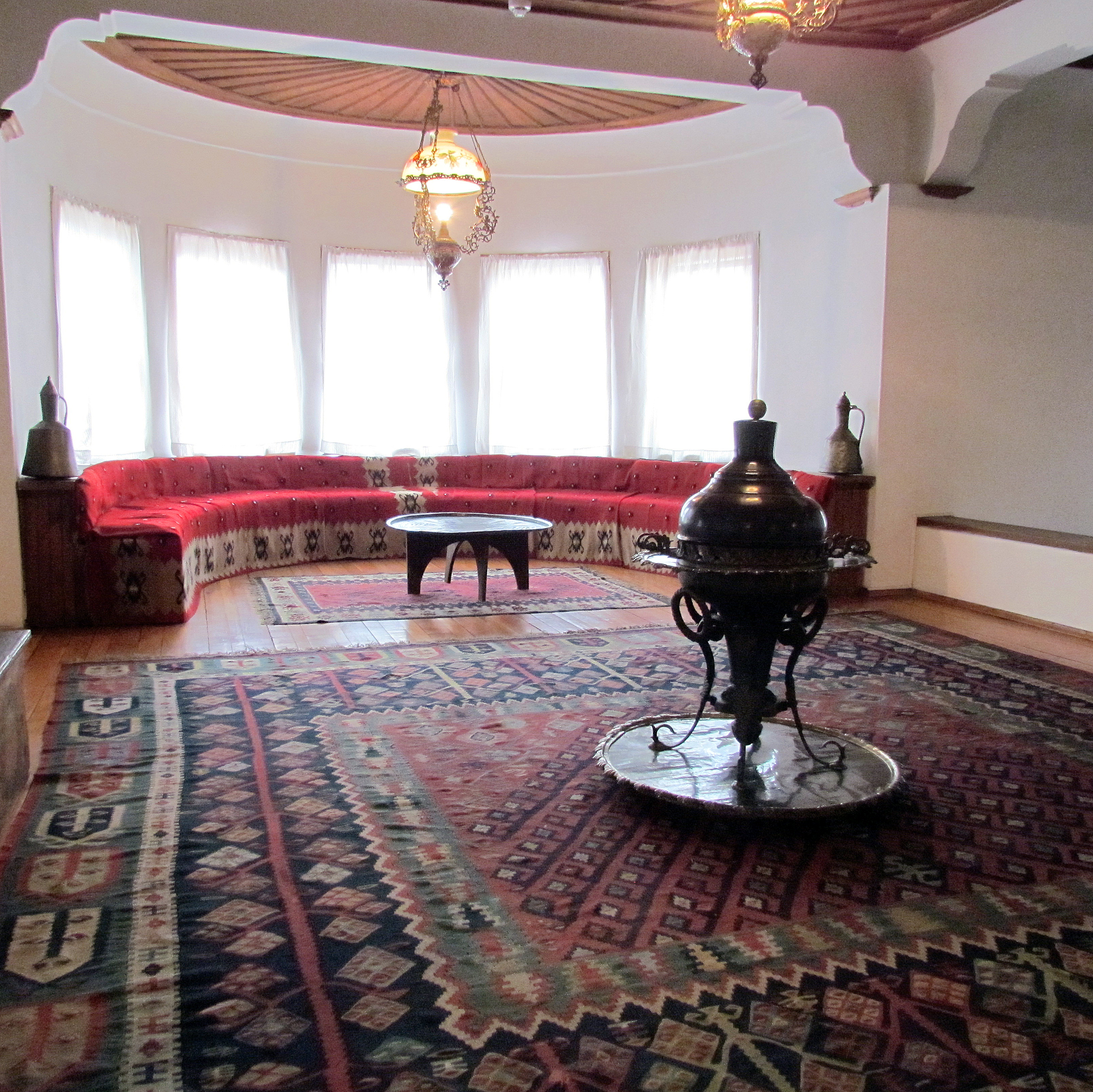 Divanhana, Divanhana, Princess Ljubica's Residence